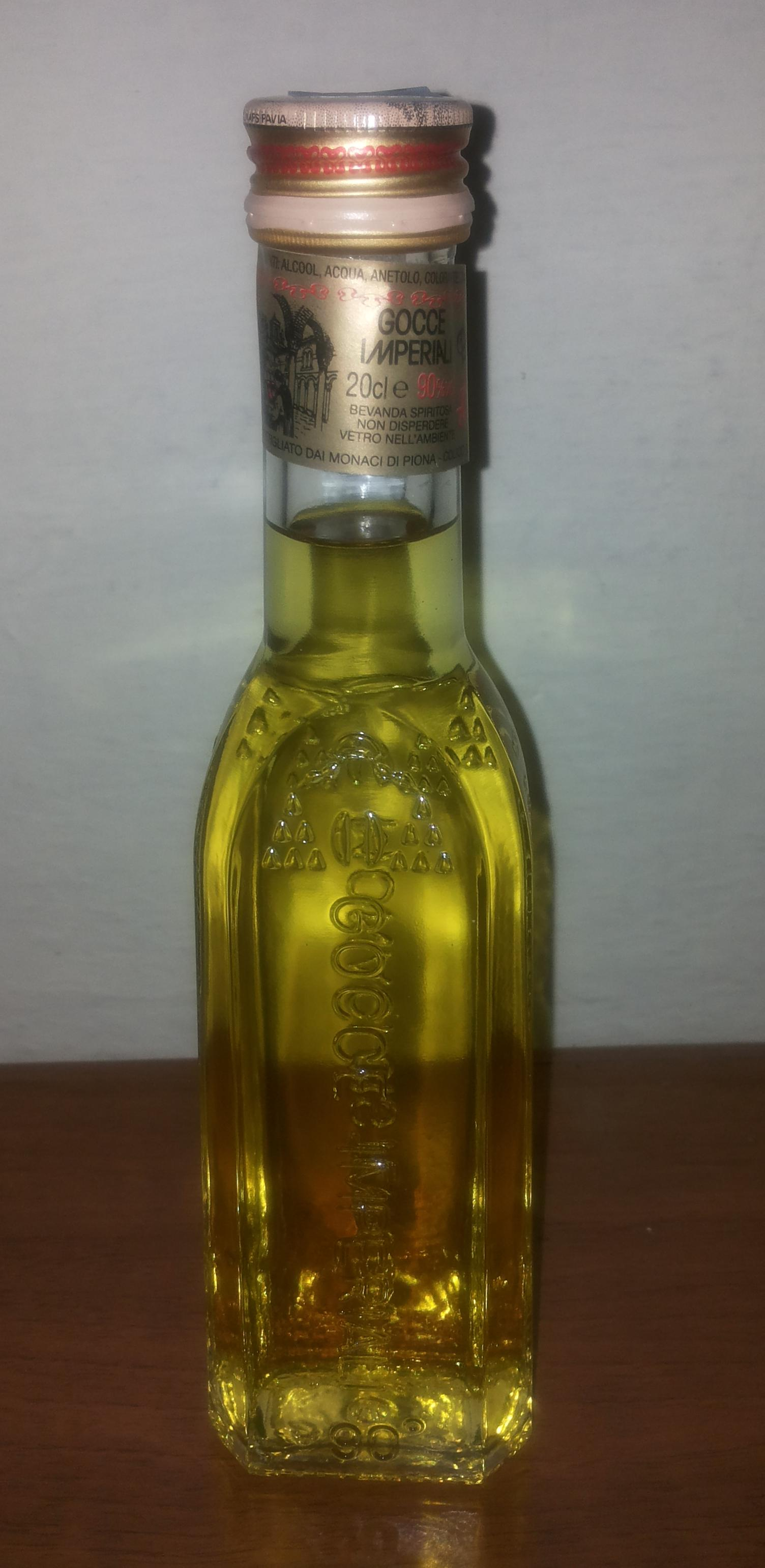 Gocce imperiali, distilled beverage 90%vol. Piona Abbey